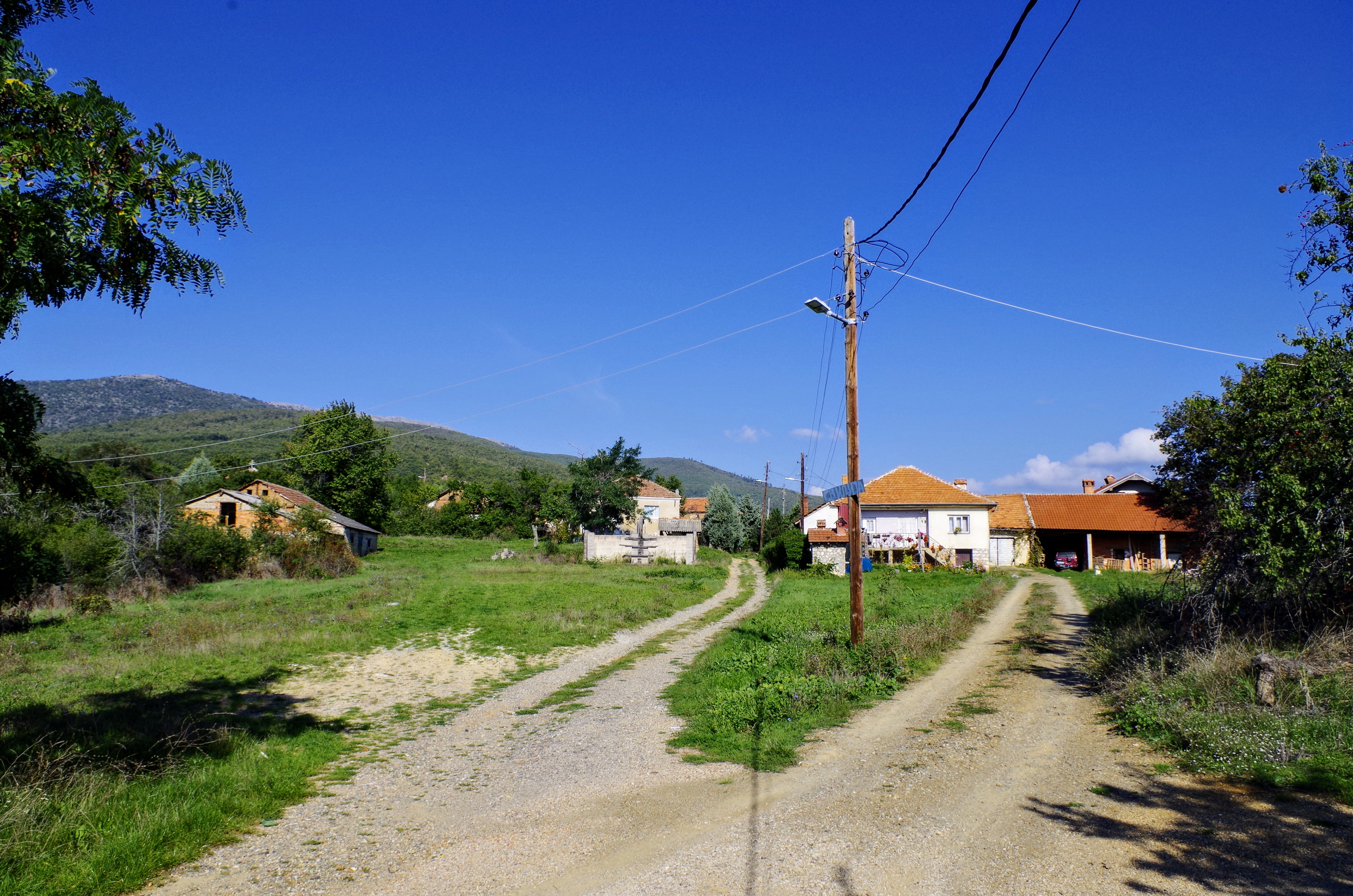 View of the village Preljubje